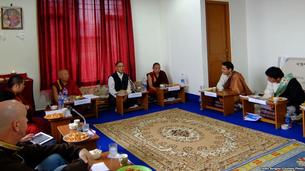 Ngodup Tsering, Geshe Lhakdor and Geshe Lobsang Monlam.